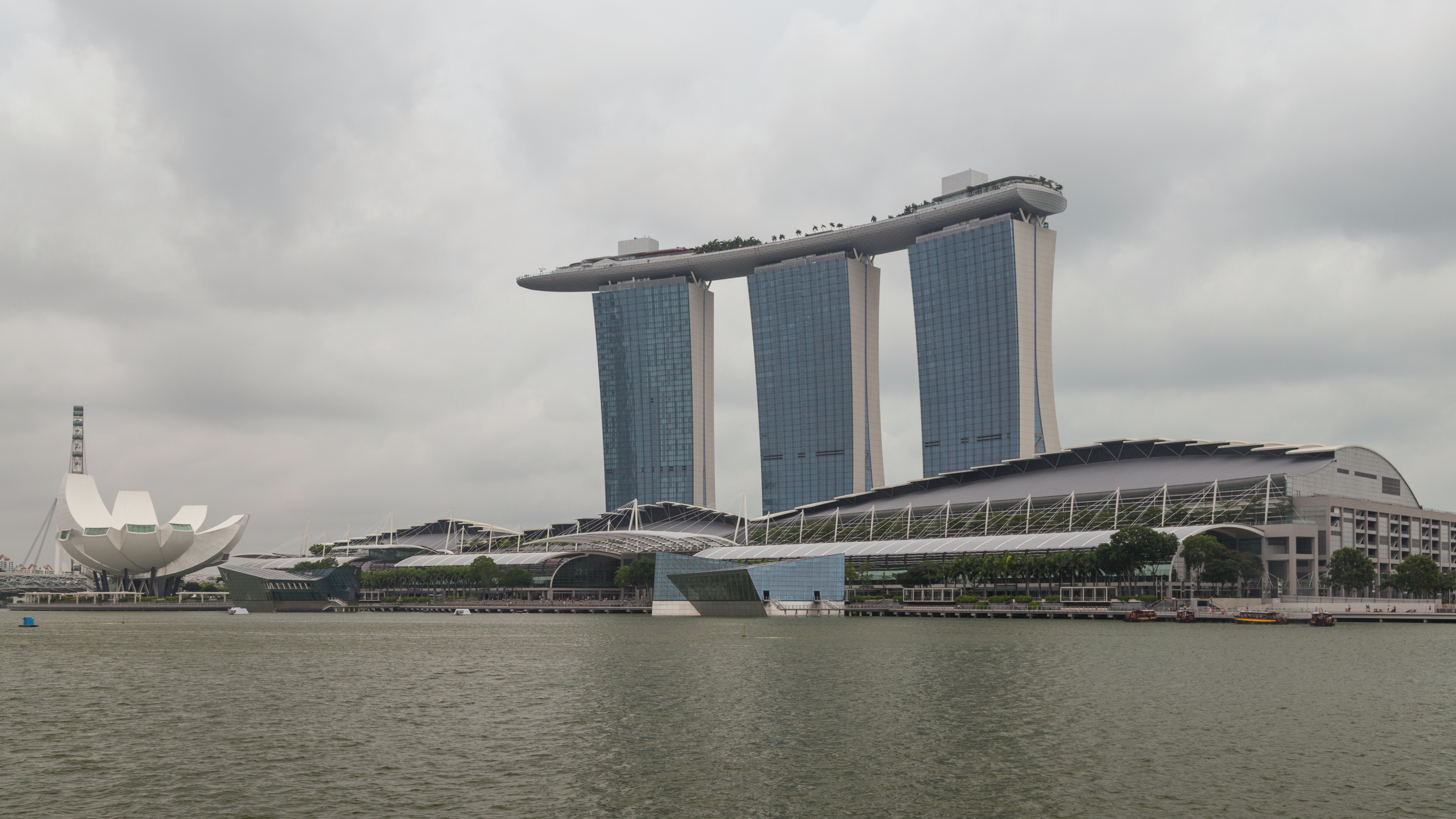 Marina Bay Sands and ArtScience Museum. Downtown Core, Central Region, Singapore.